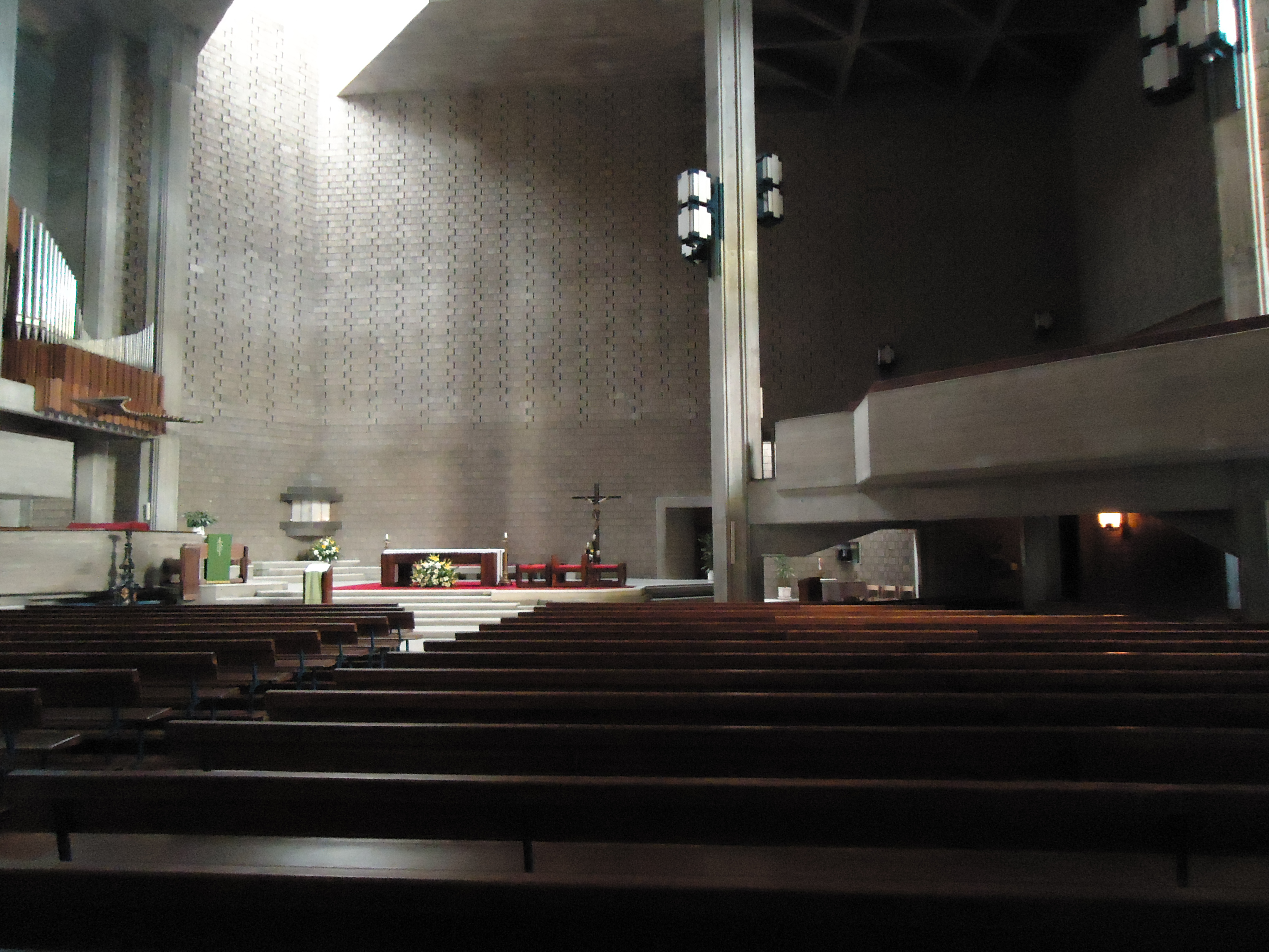 Nave of Sagrado Coração de Jesus Church in Lisbon